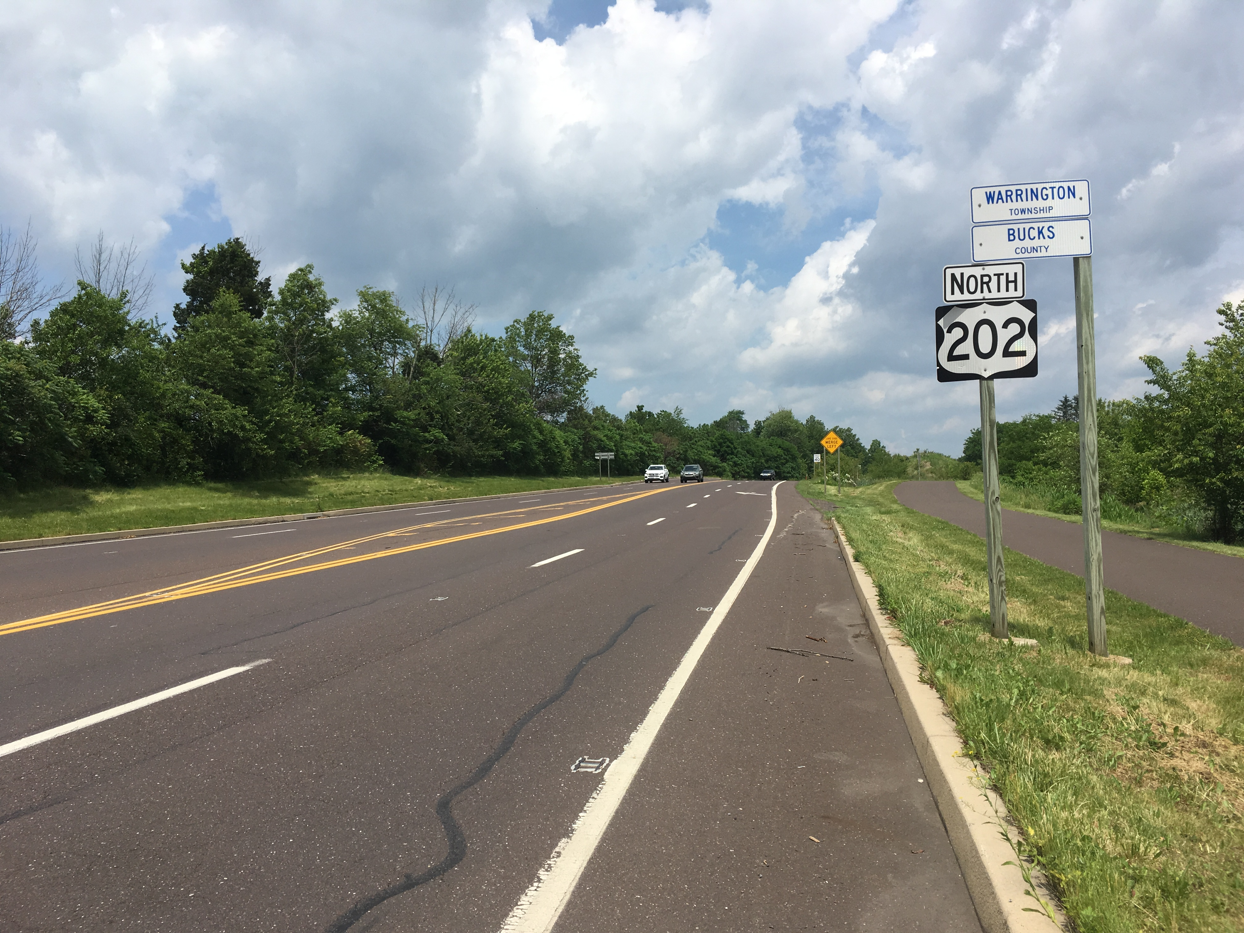 U.S. Route 202 northbound past the intersection with County Line Road in Warrington Township, Pennsylvania.